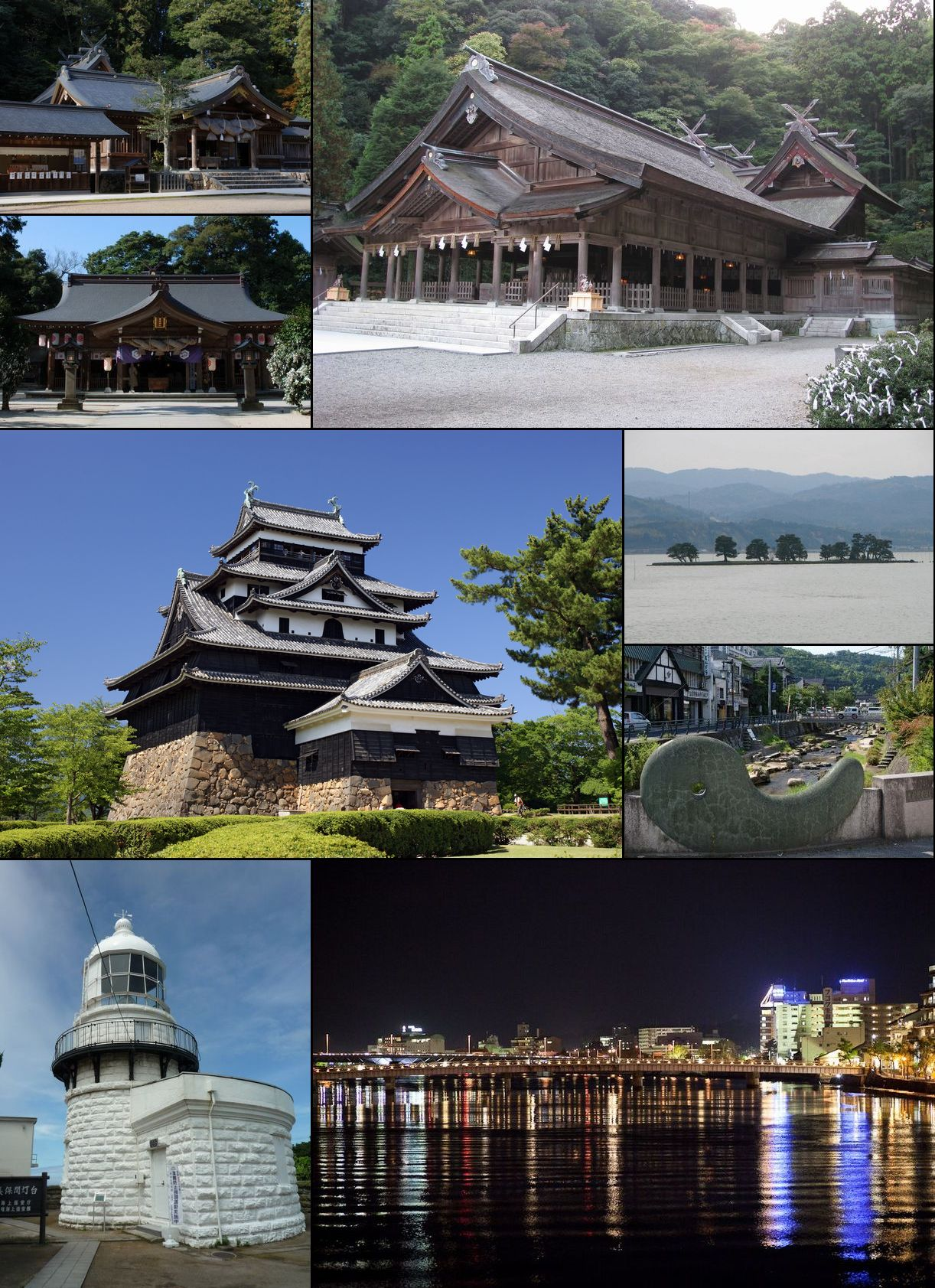 Matsue City, Shimane Prefecture, JAPAN From top left:Kumano Taisya, Yaegaki Shrine, Miho Shrine, Matsue Castle, Lake Shinji(Yomegashima), Tamatsukuri hot springs, Mihonoseki Lighthouse, Night view of Matsue